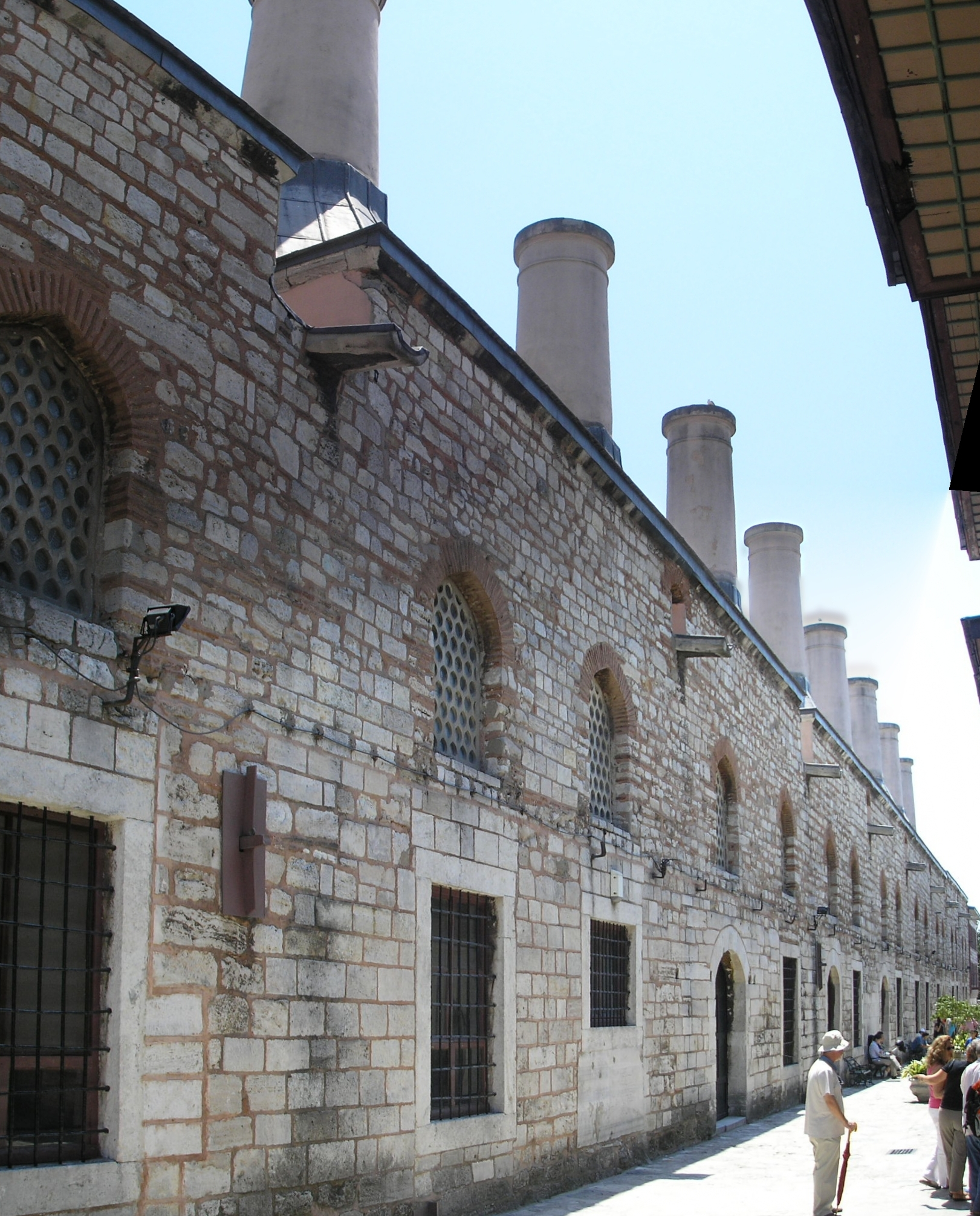 View of the palace kitchen with the chimneys in Topkapi Palace.